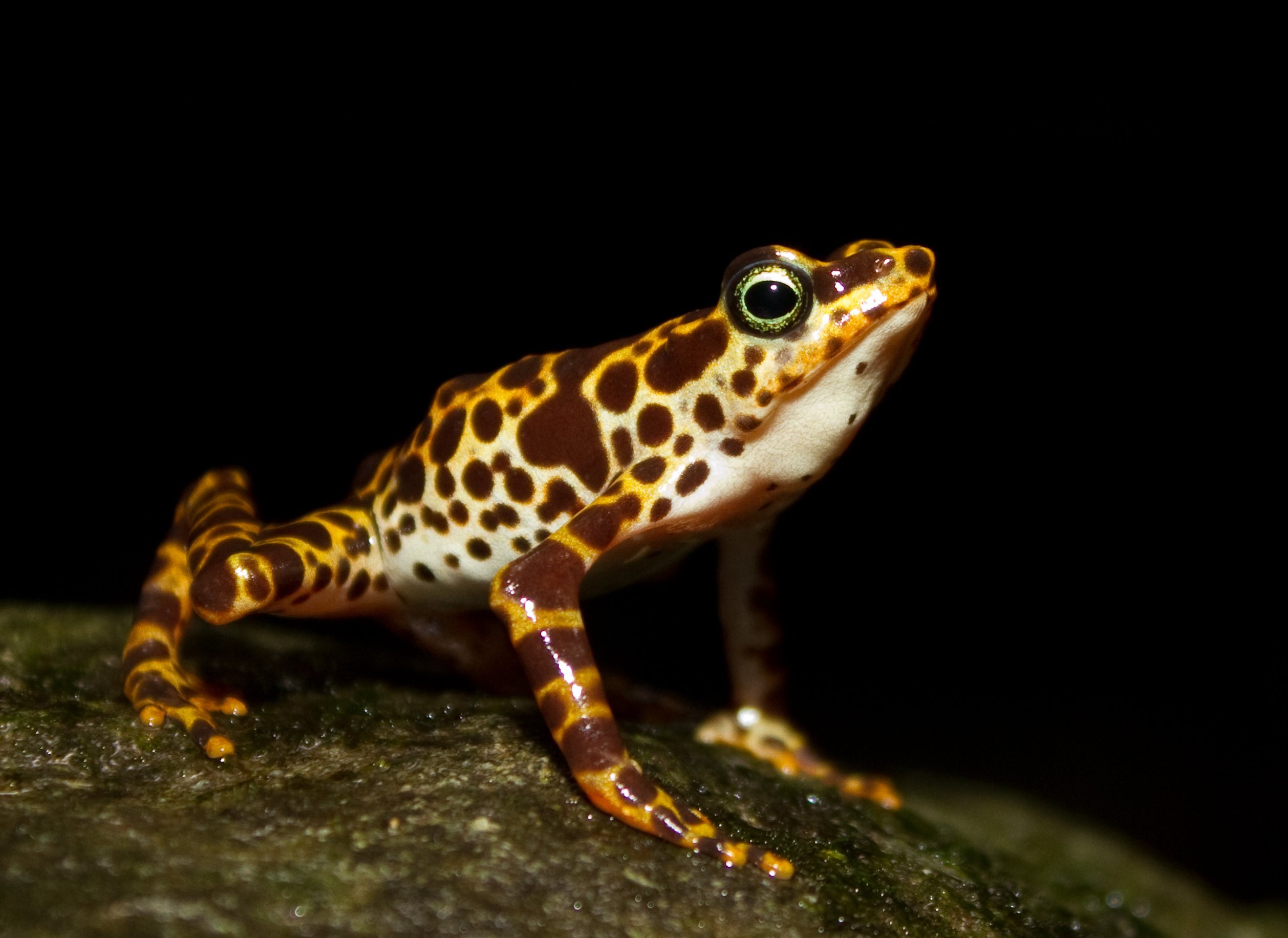 Atelopus certus calling male. Details of the expedition can be found here [1].